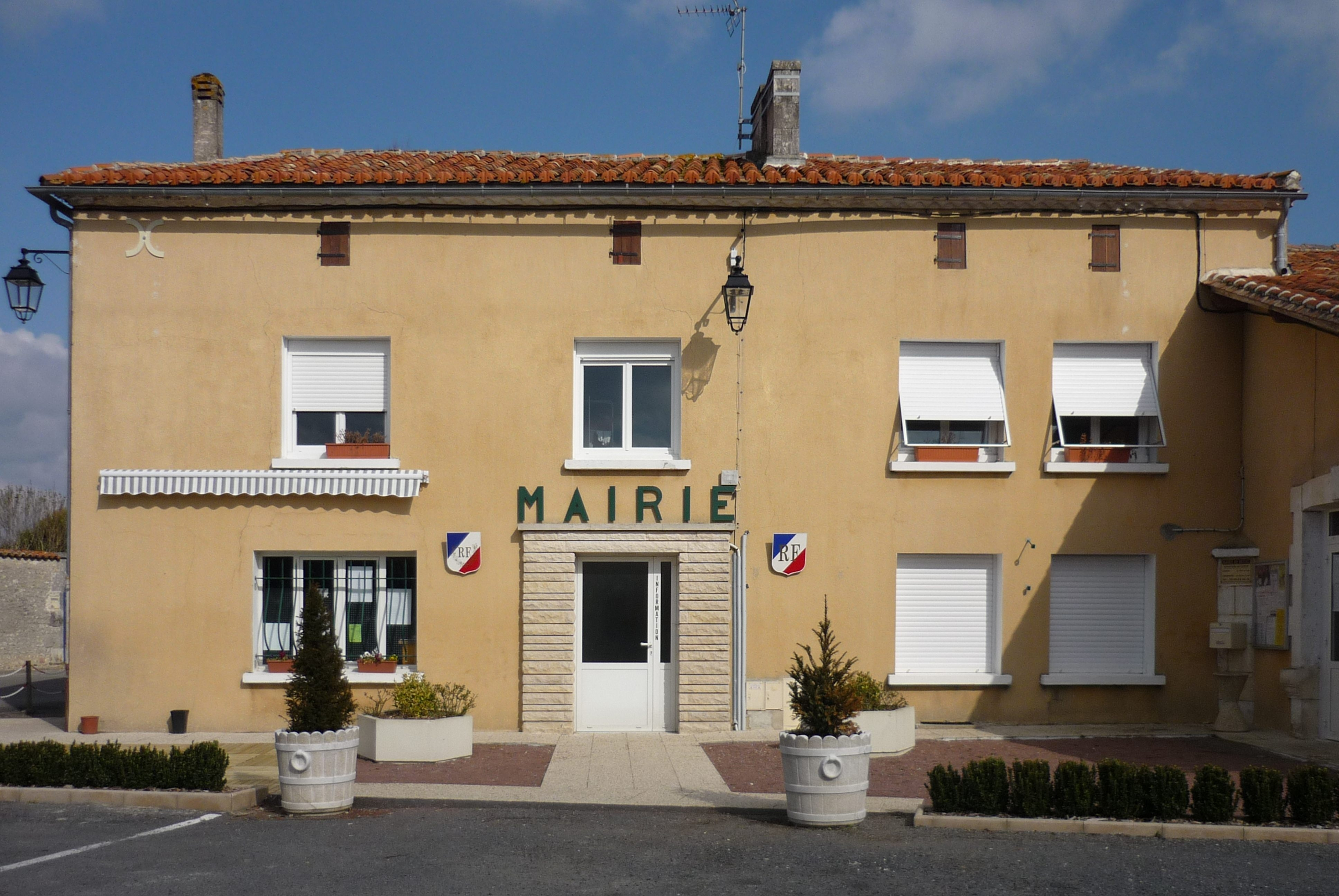 City hall of Deviat, Charente, France.